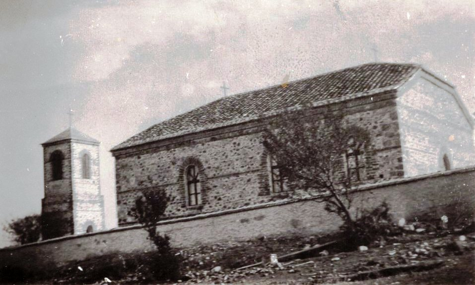 Church in village Miletkovo, 1931 This media file is produced by Wikipedian in Residence in Category:Wikipedian in Residence at DARM in 2016.